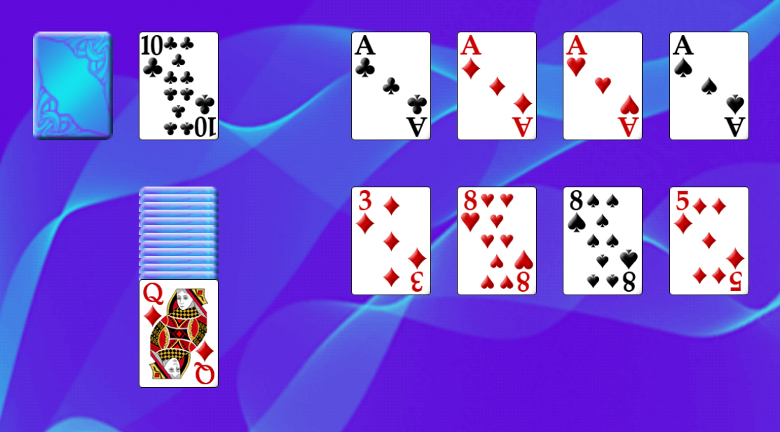 This is a screenshot of the solitaire game Acme layout.